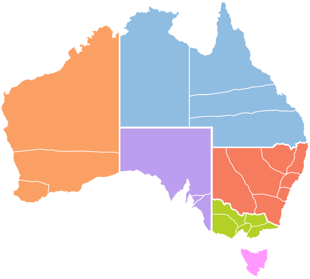 Image of Australia, divided into the provinces (coloured) and dioceses of the Anglican Church of Australia